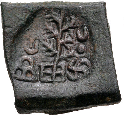 Taxila (local coinage). Circa 220-185 BC. Tree in enclosure flanked by hill surmounted by crescent and Nandipada above swastika / Blank reverse